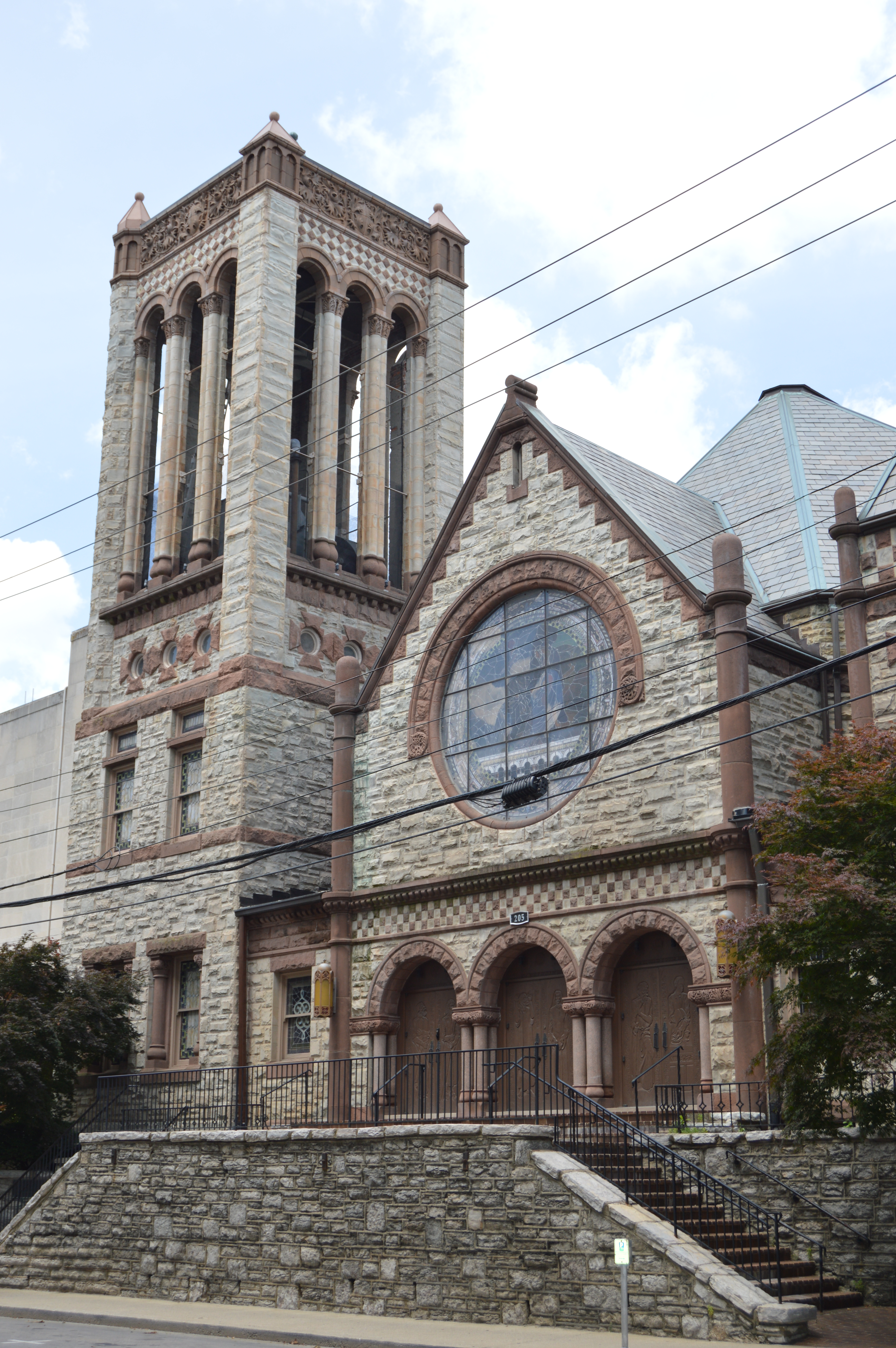 Front of Central Christian Church, located at 207 E. Short Street in Lexington, Kentucky, United States. Built in 1894, it is listed on the National Register of Historic Places.